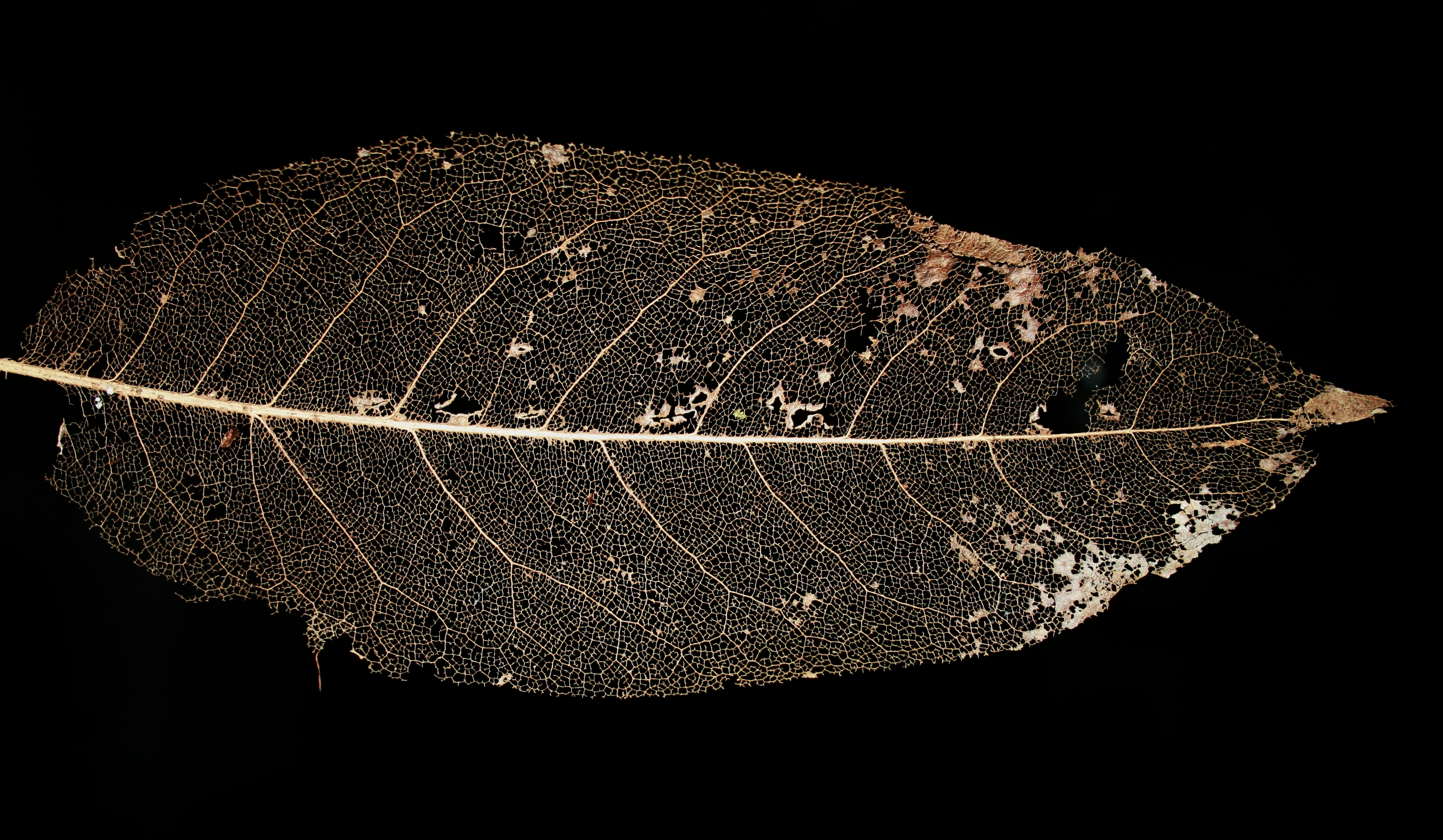 Vein skeleton of a leaf. A Tree the leaf came from is: Family: Magnoliaceae;Genus:Michelia Species: doltsopa